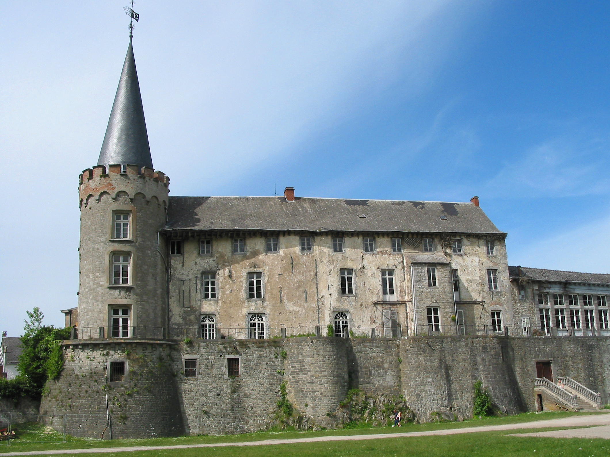 Florennes (Belgium), the castle (XII/XVIII centuries).